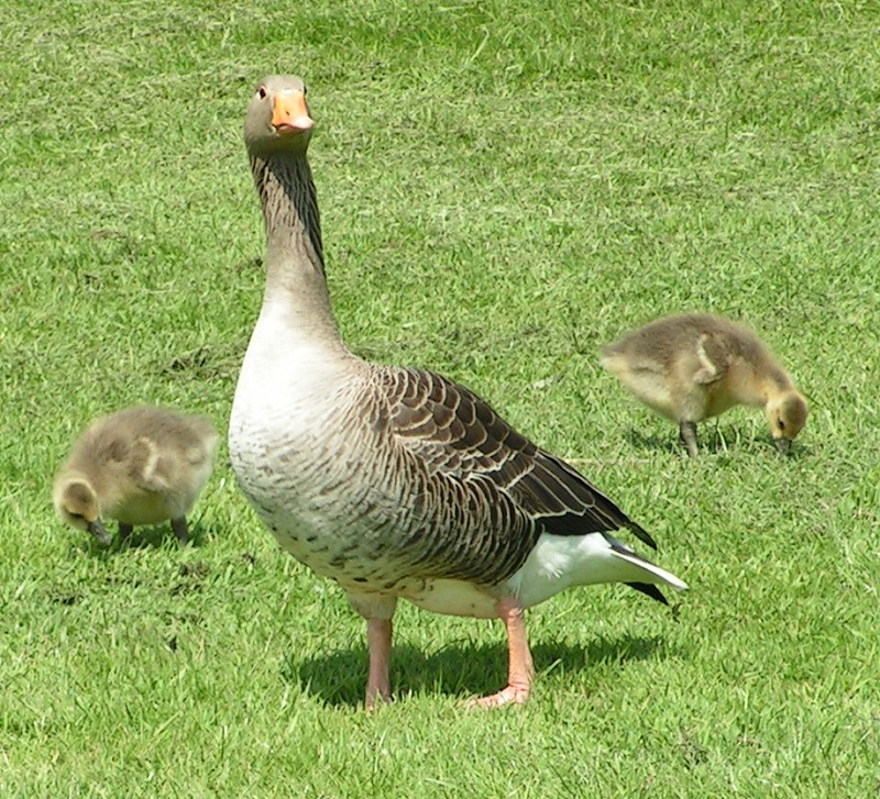 Greylag Goose and goslings. Hanningfield Reservoir, Essex, UK.